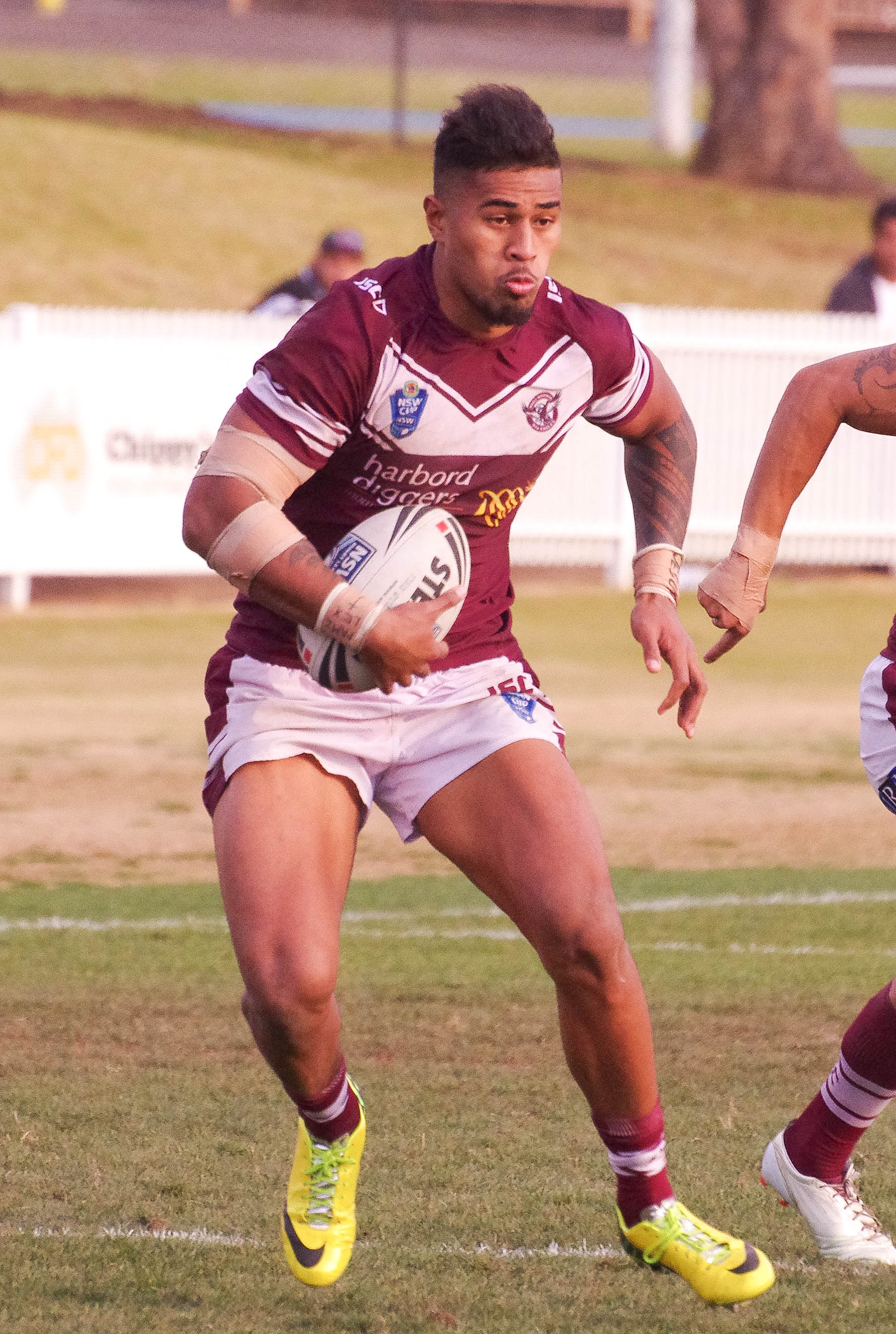 Michael Chee Kam